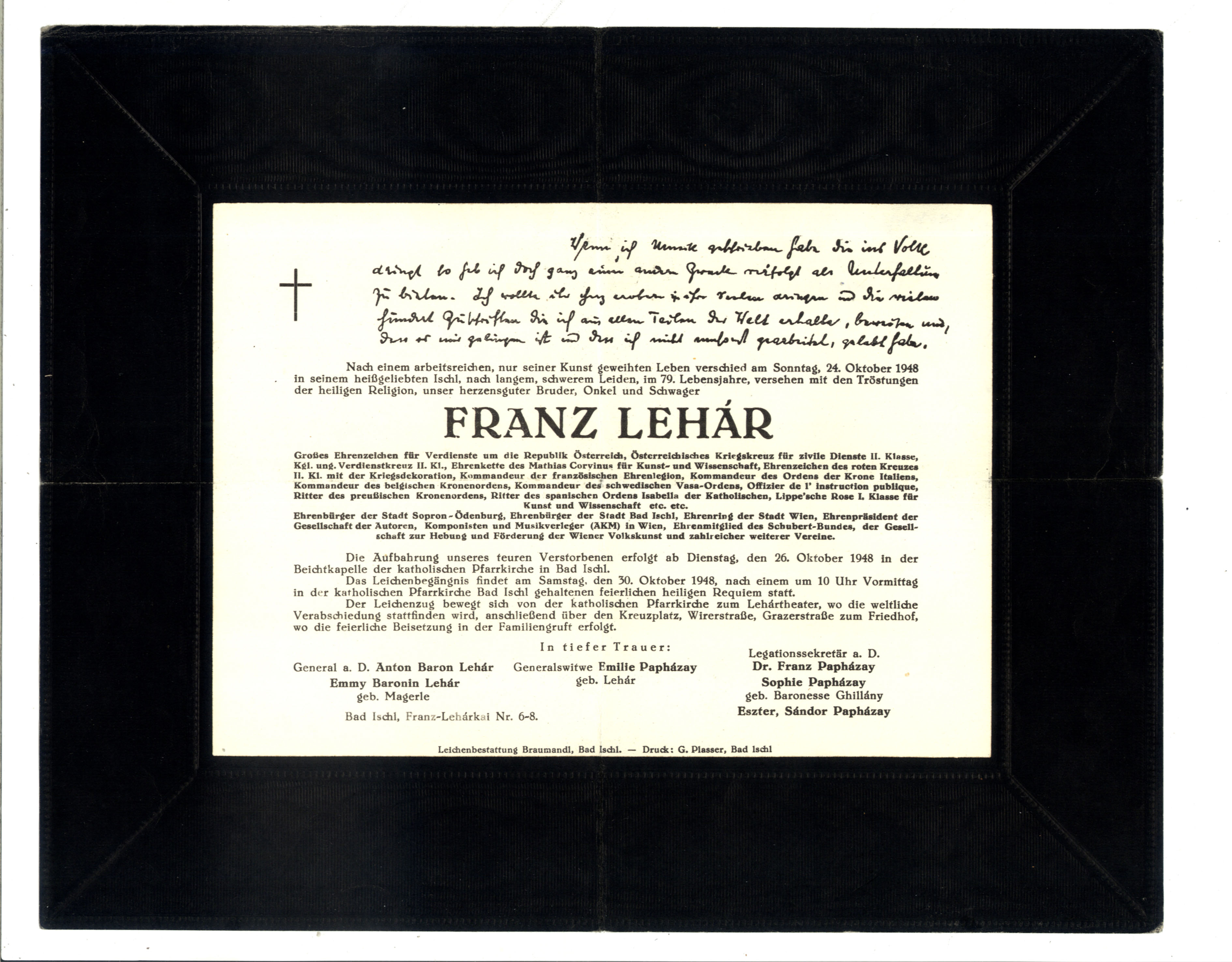 death notice of composer Franz Lehar